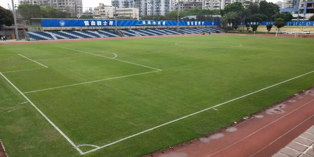 Yanizgang Stadium in Guangzhou